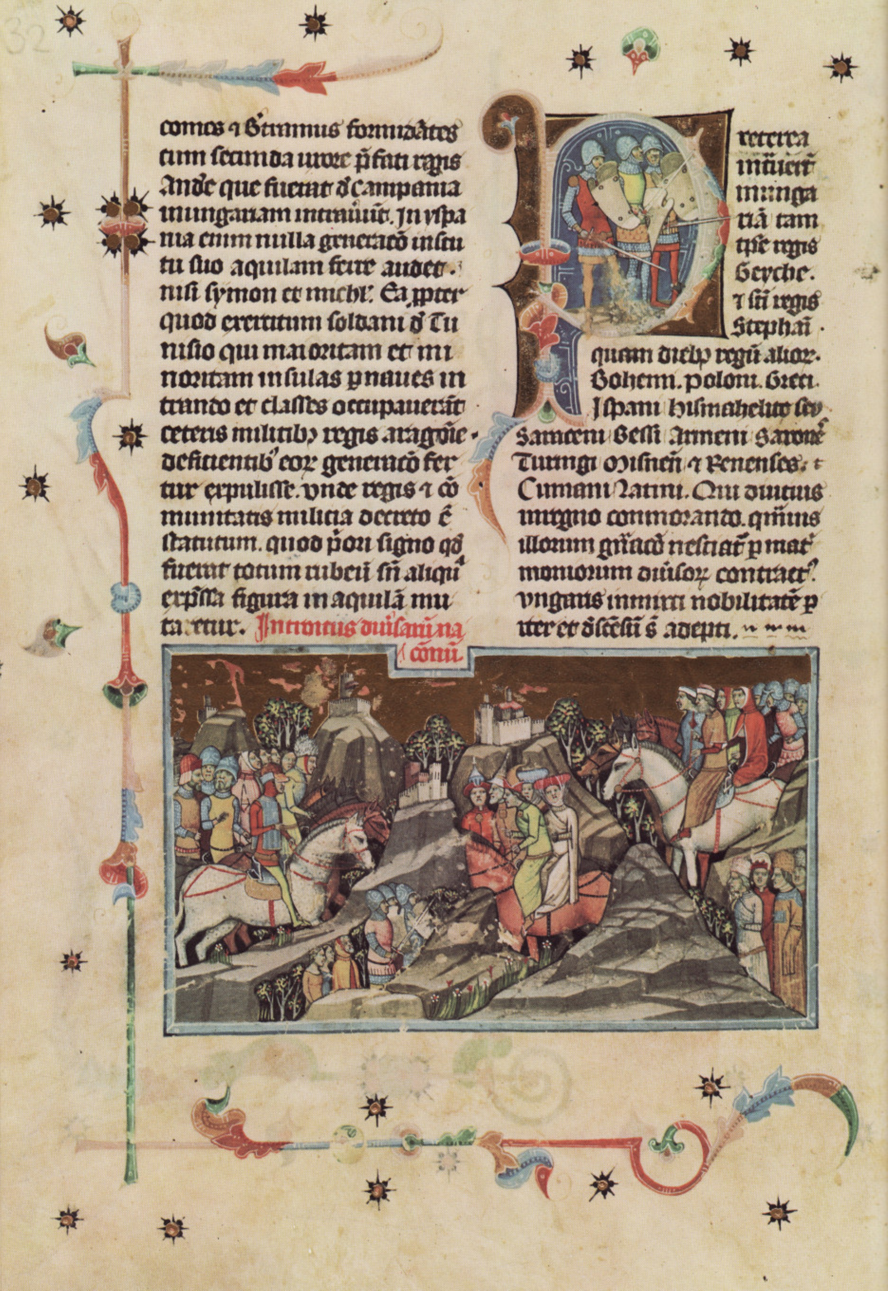 Illuminated Chronicle; Chronicon Pictum; Képes Krónika.